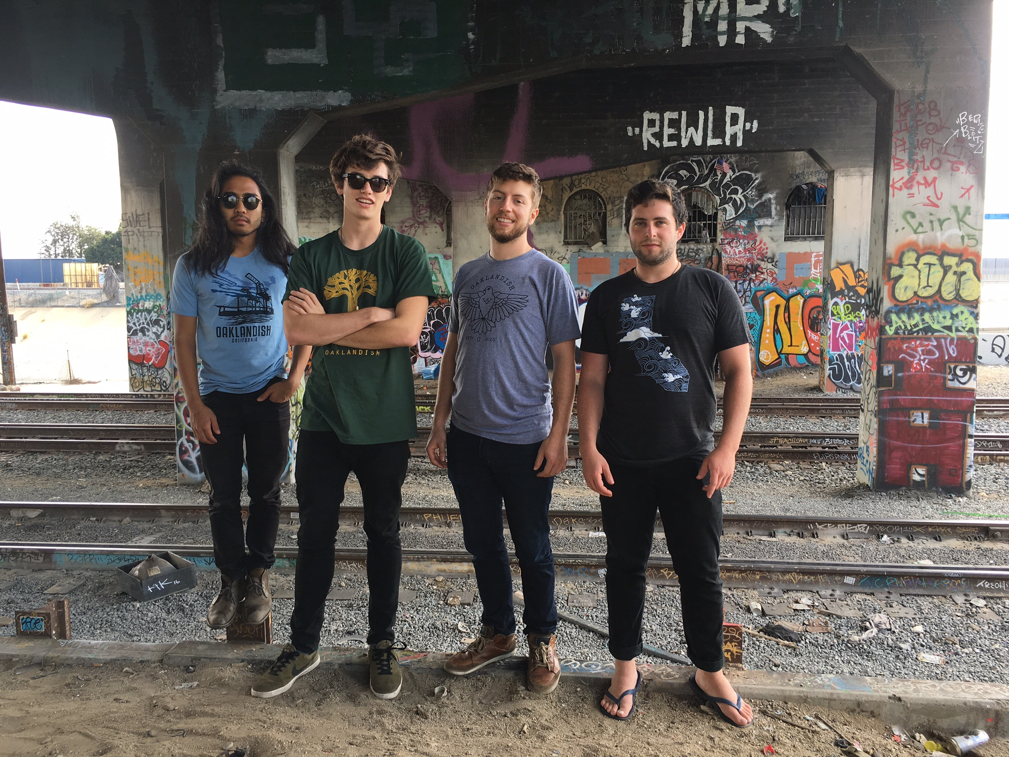 Fever Charm